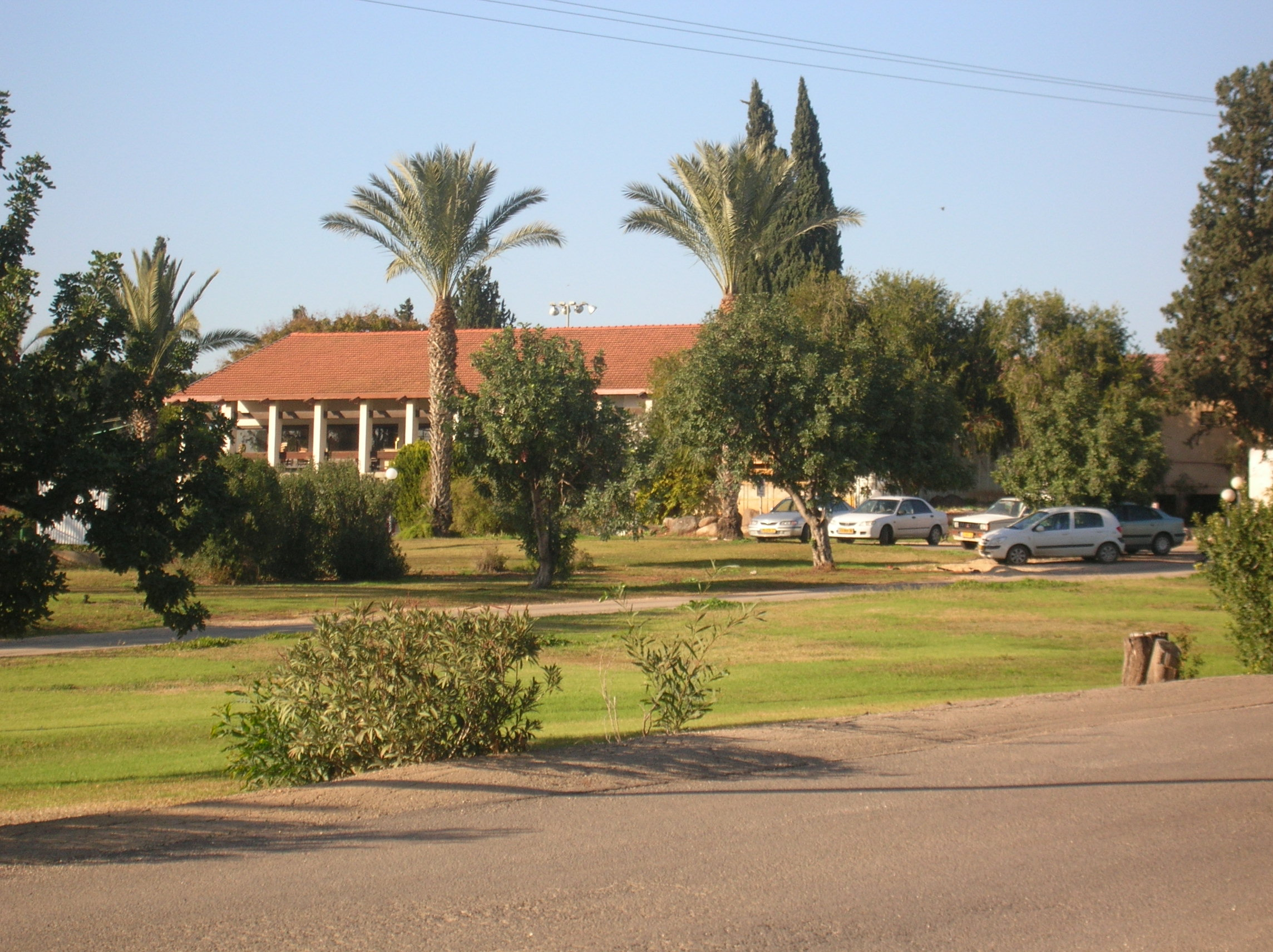 The communal dining room.